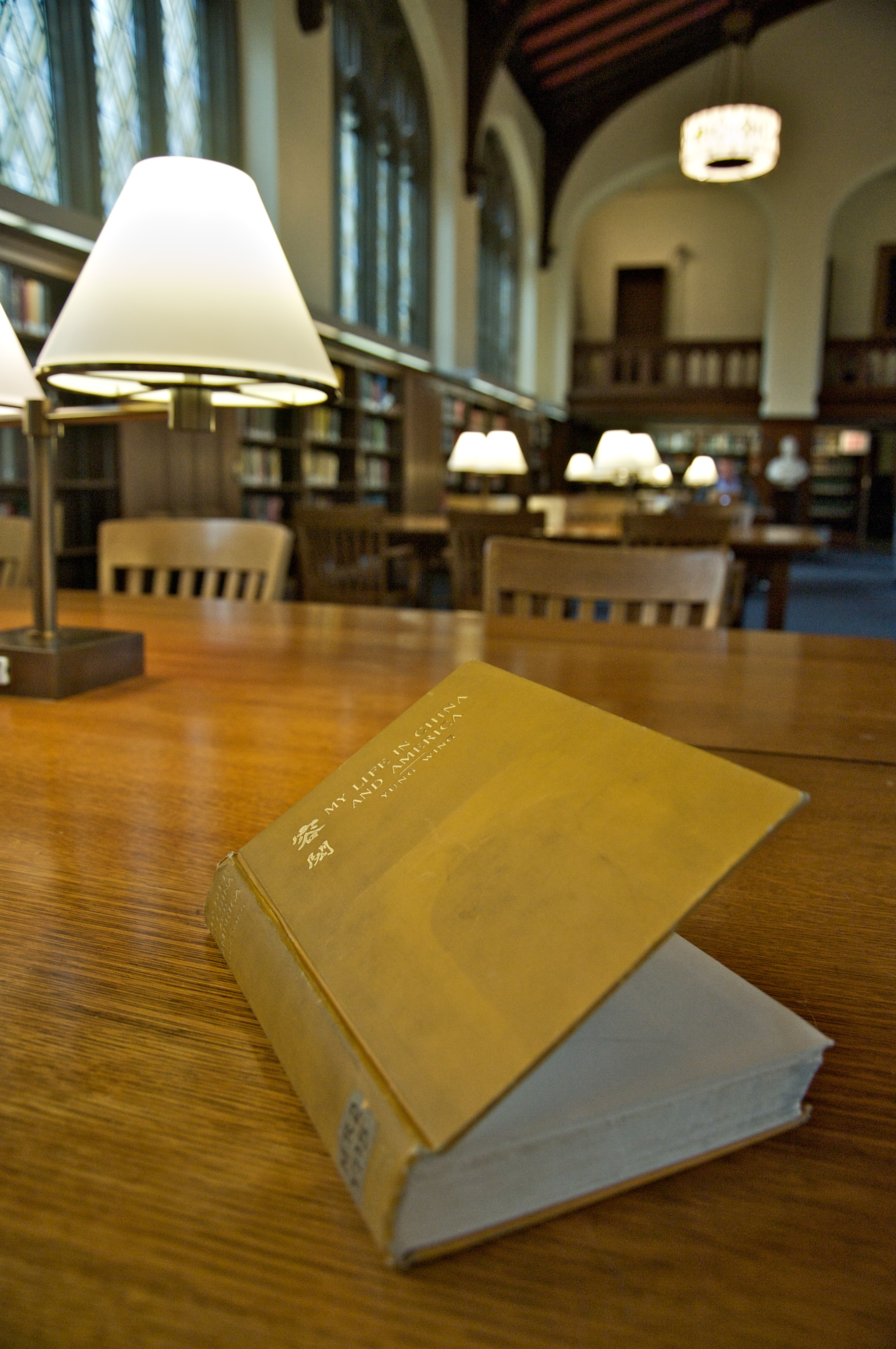 My Life in China and America by Yung Wing, published by Henry Holt & Co., New York, 1909, as found in the library of the Union Theological Seminary (Columbia).